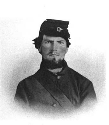 Photograph of Ivory George Kimball, taken at the age of 19 in June 1862. Kimball had enlisted in Company E of the 55th Indiana Regiment (infantry), and fought in the American Civil War for a year until severe illness forced him out. Kimball was later a judge on the District of Columbia Police Court.